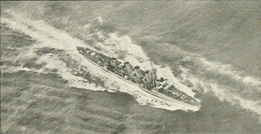 Aerial photograph of British light cruiser HMS Royalist.